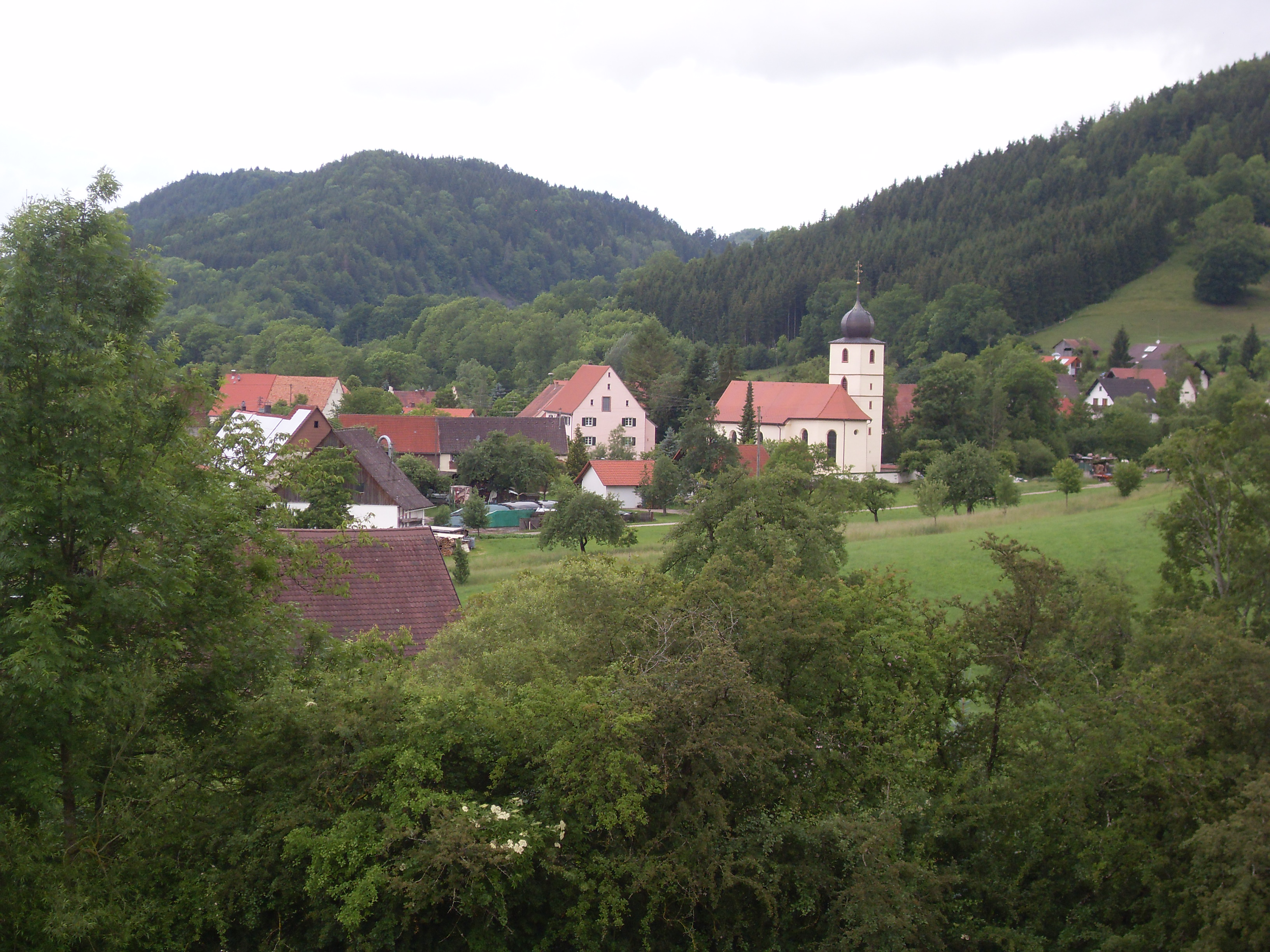 Achdorf, municipality of Blumberg, Baden-Württemberg, Germany